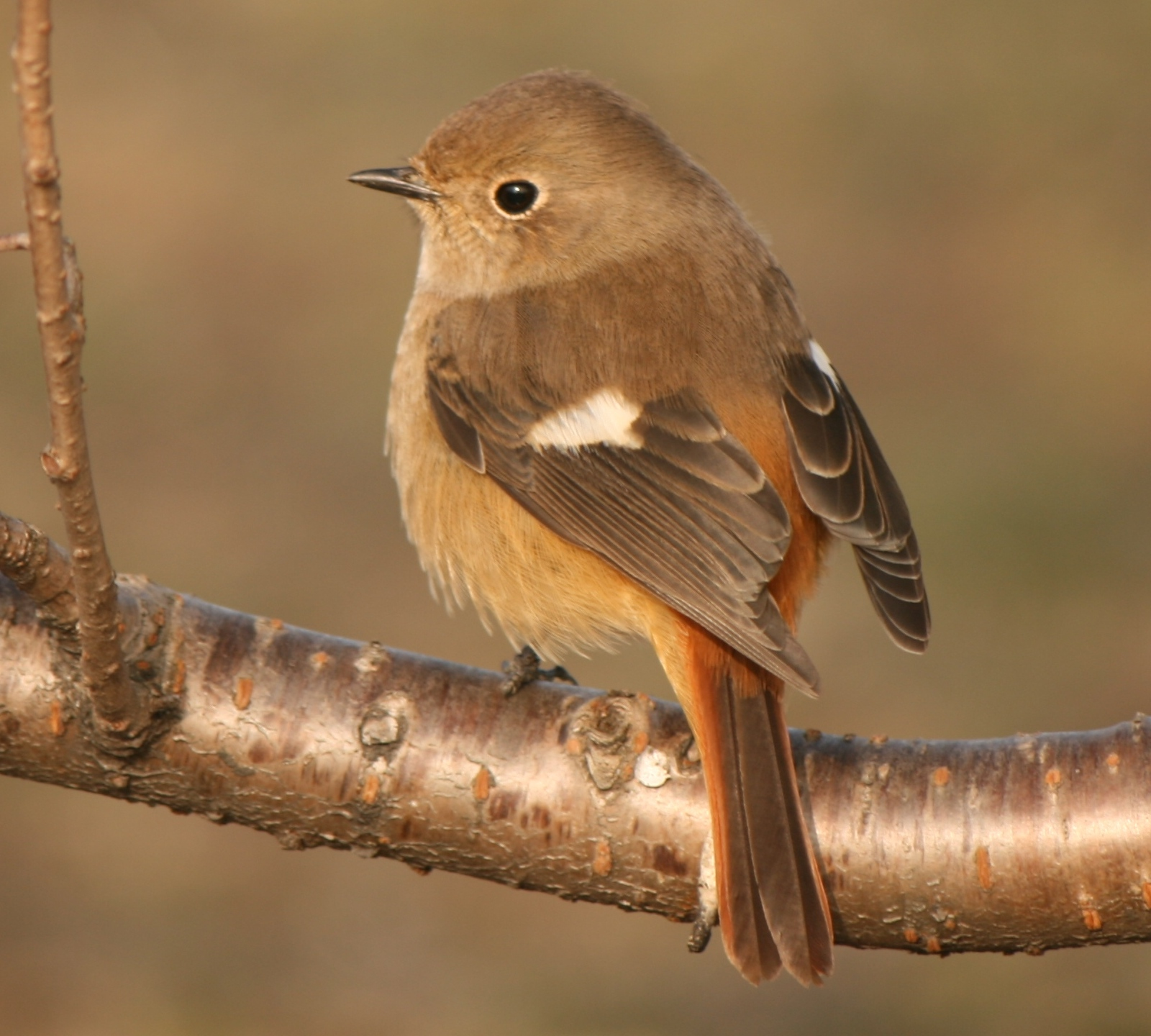 Phoenicurus auroreus (Daurian Redstart) , female back in Japan